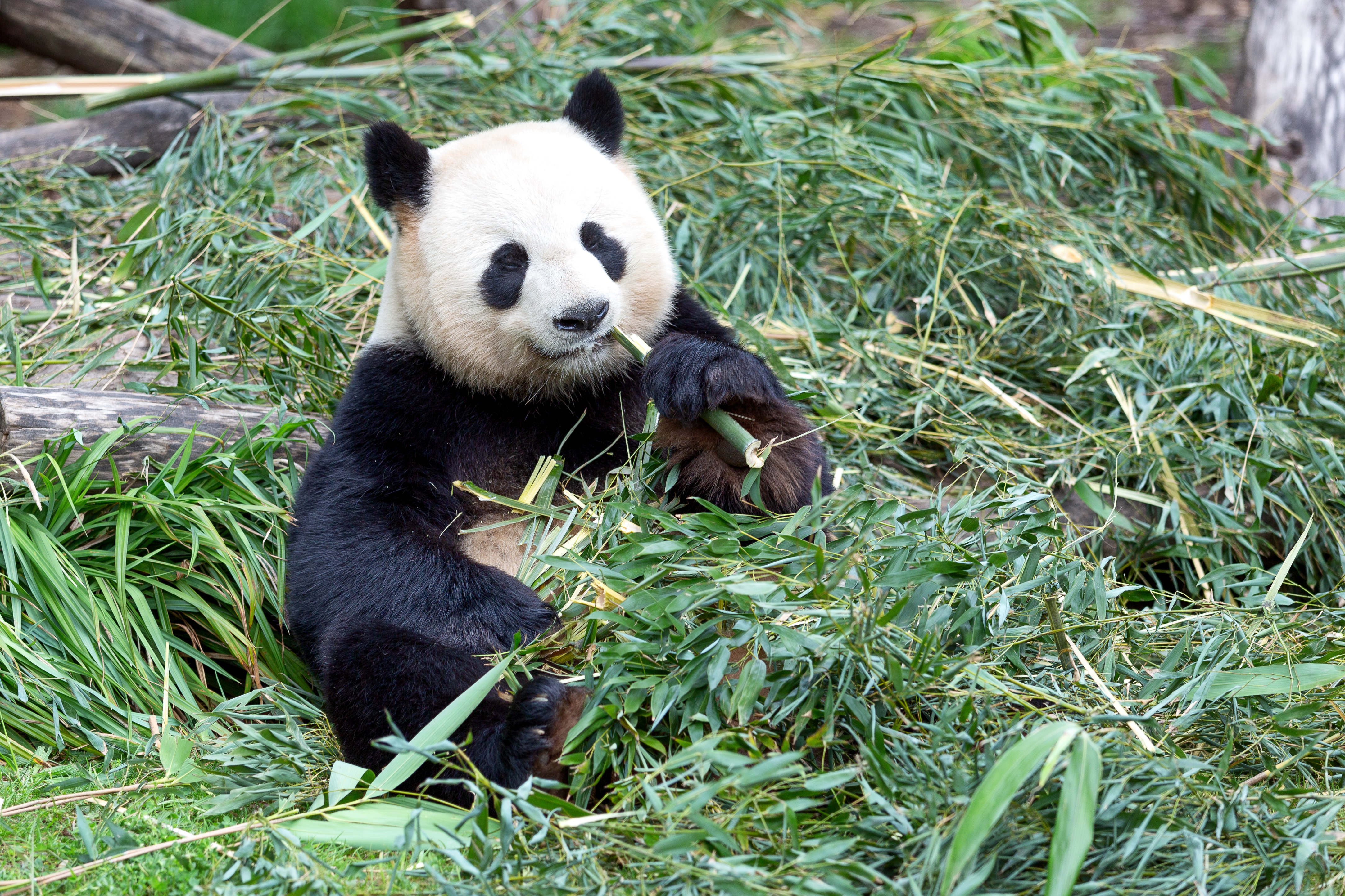 Jiao Qing in May 2020